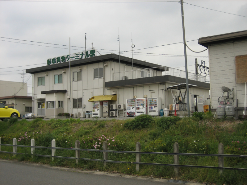 Gifu Freight Terminal of Japan Freight Railway